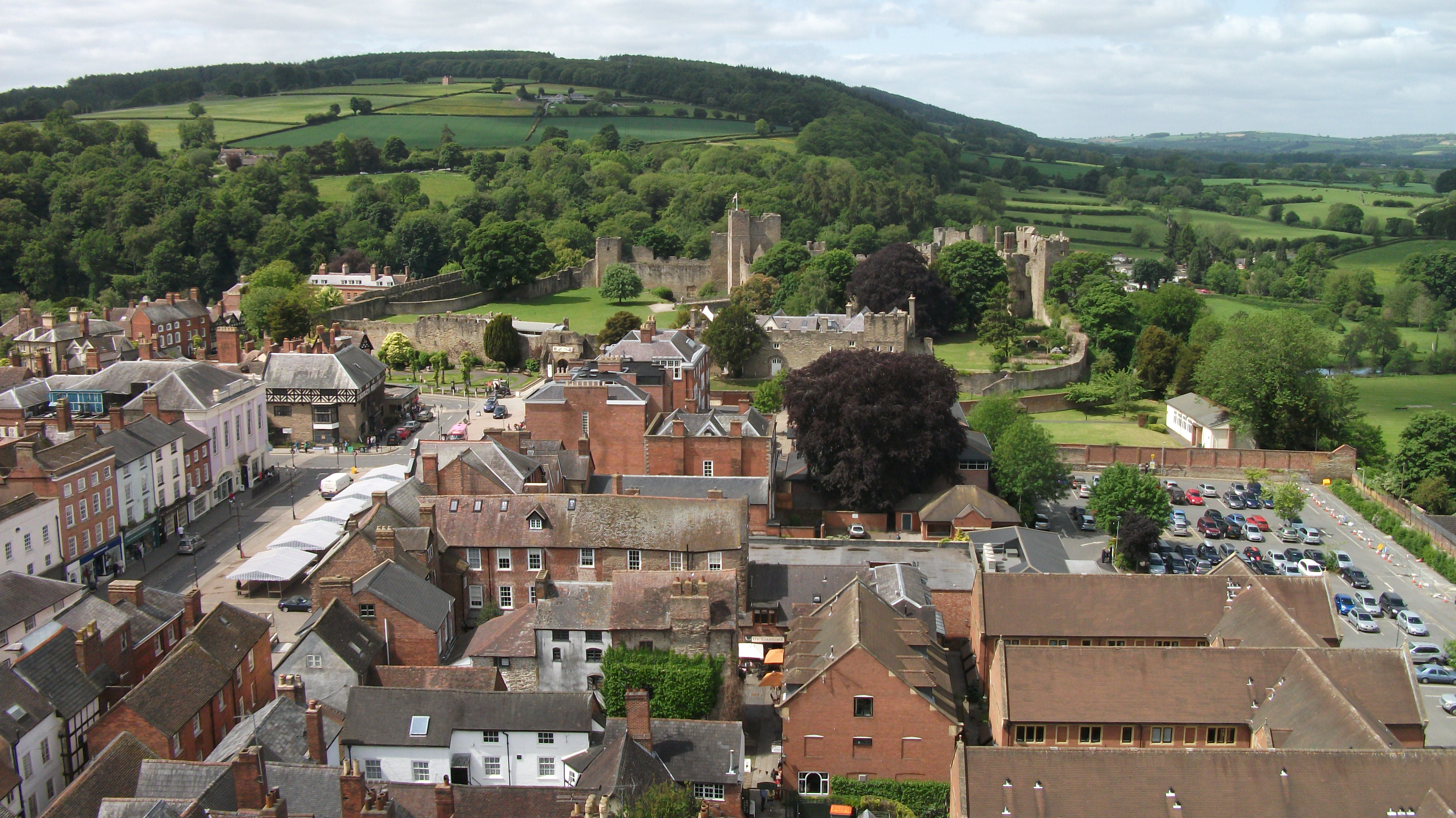 Ludlow Castle - looking West from the tower of St. Laurence's Parish Church.